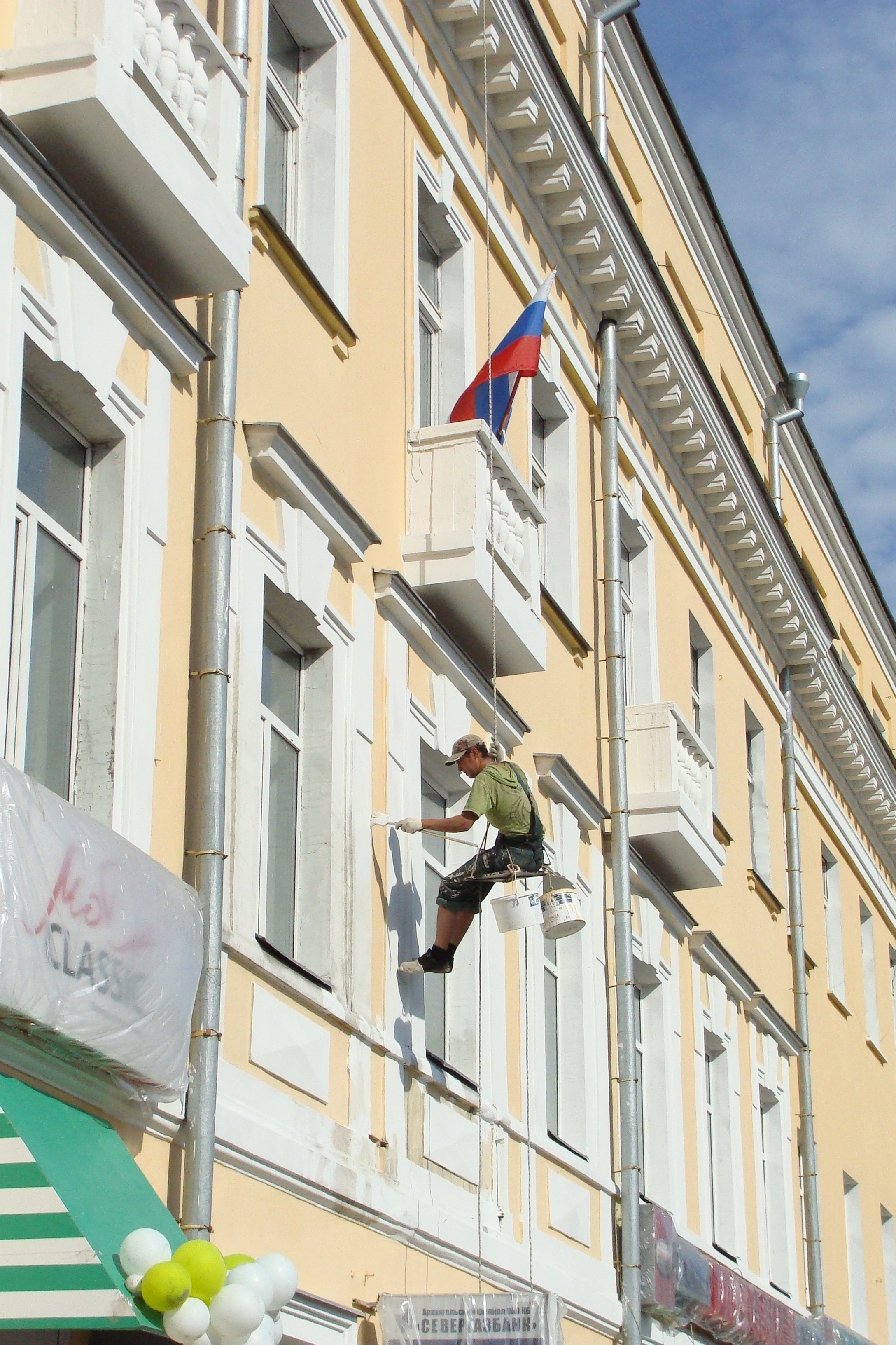 Painters (trade), Russia